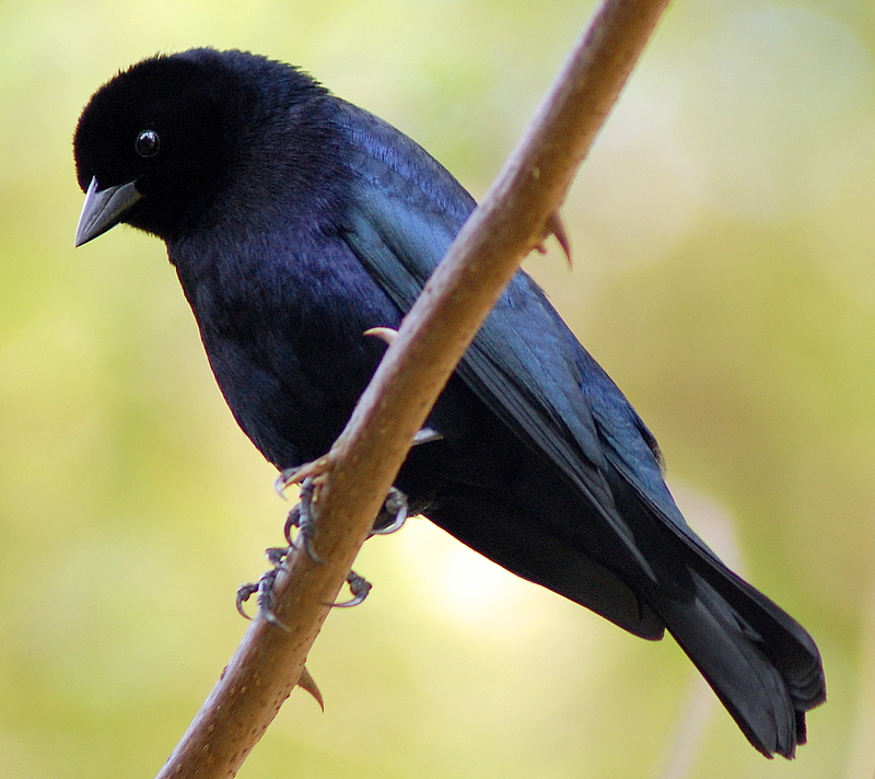 A Shiny Cowbird (Molothrus bonariensis)